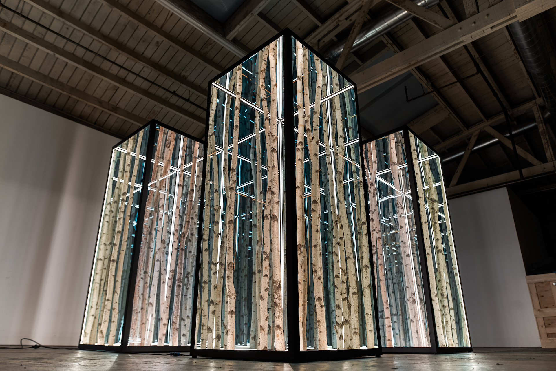 Birch, Anthony James